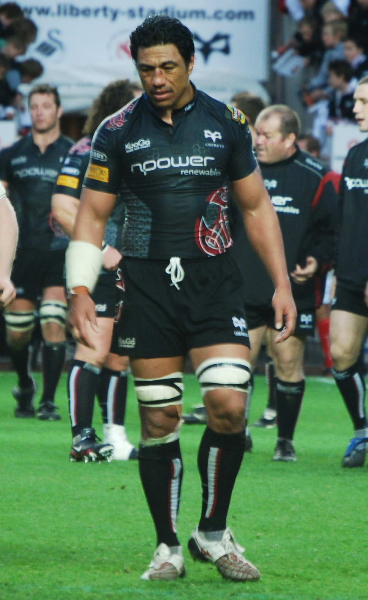 Duncan Jones and Filo TiaTia thank their supporters at the end of the match.